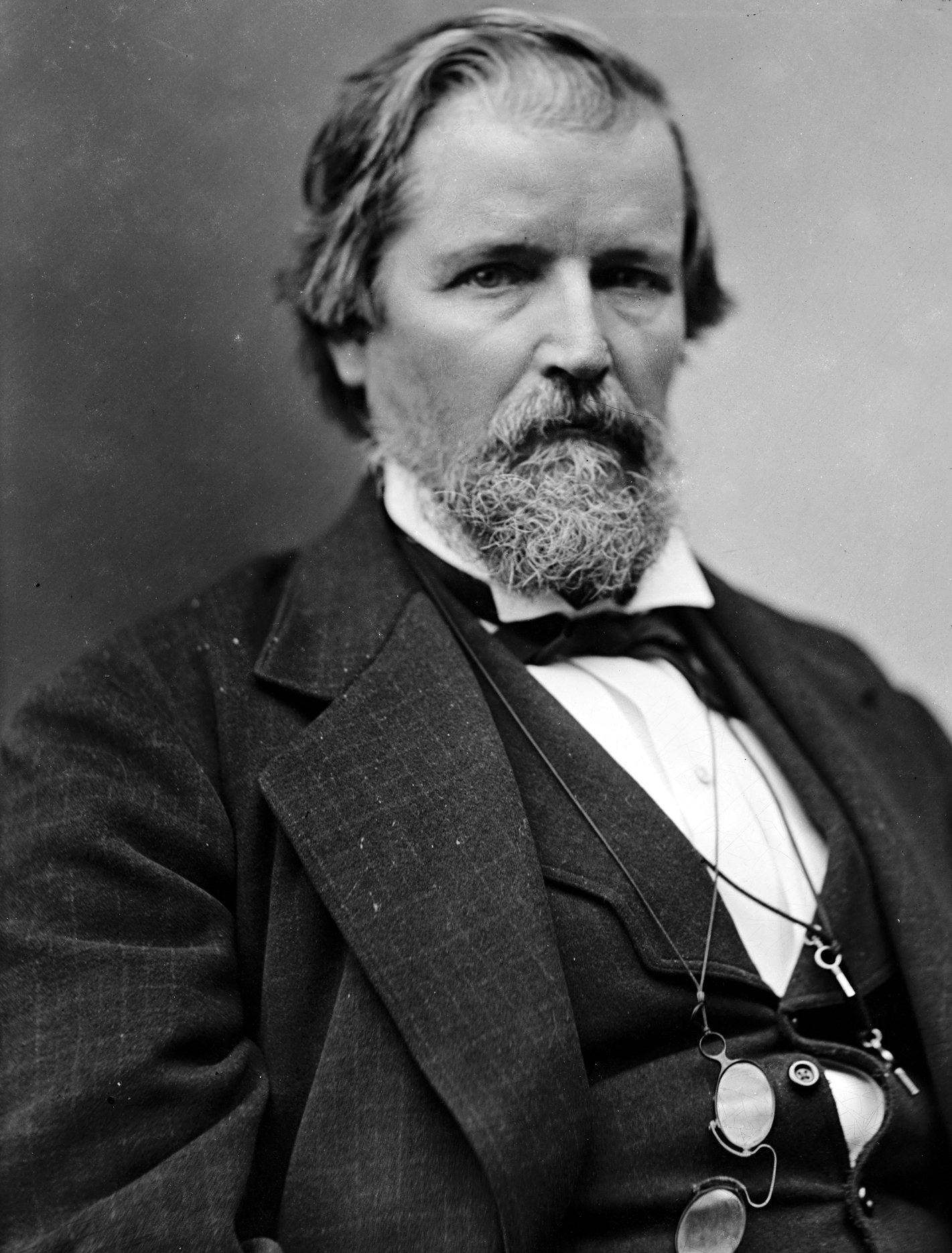 Joseph Barton Elam, US Representative from Louisiana